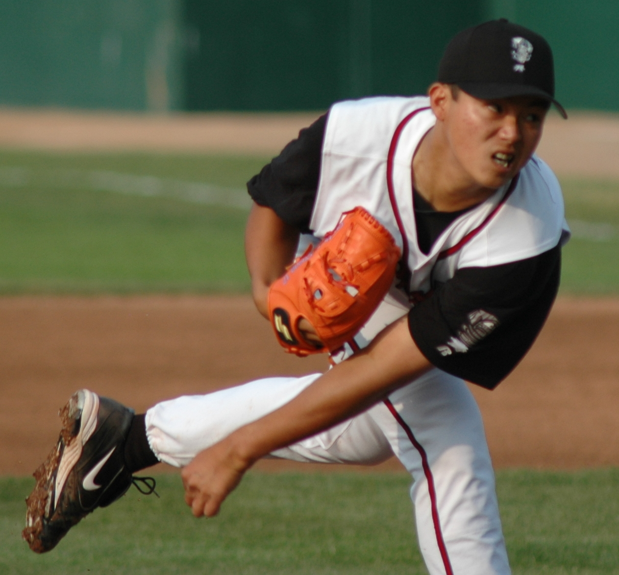 Chi-Hung Chen delivers a pitch for the Lansing Lugnuts during a 2005 game at Cooley Law School Stadium in Lansing, Michigan